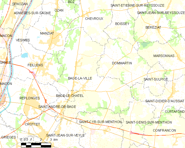 Map of French commune: Bâgé-la-Ville Map commune FR insee code 01025.png